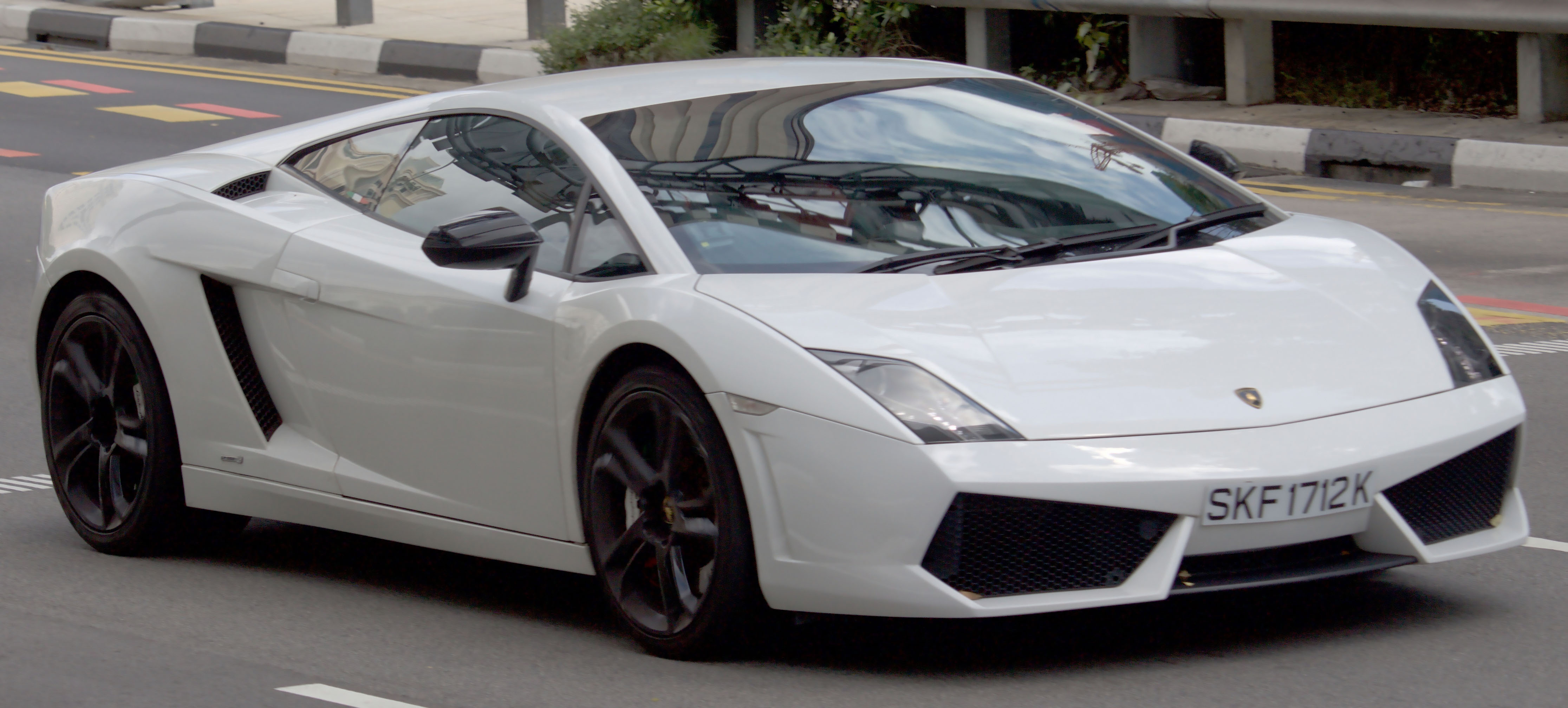 2010 Lamborghini Gallardo (L140) LP550-2 coupe. Photographed in Singapore. Vehicle registration enquiry resultsJurisdictionSingaporeRegistrationSKF1712KChassis codeZHWGE52Z5ALA09926Engine codeCEH003535Year of manufacture2010